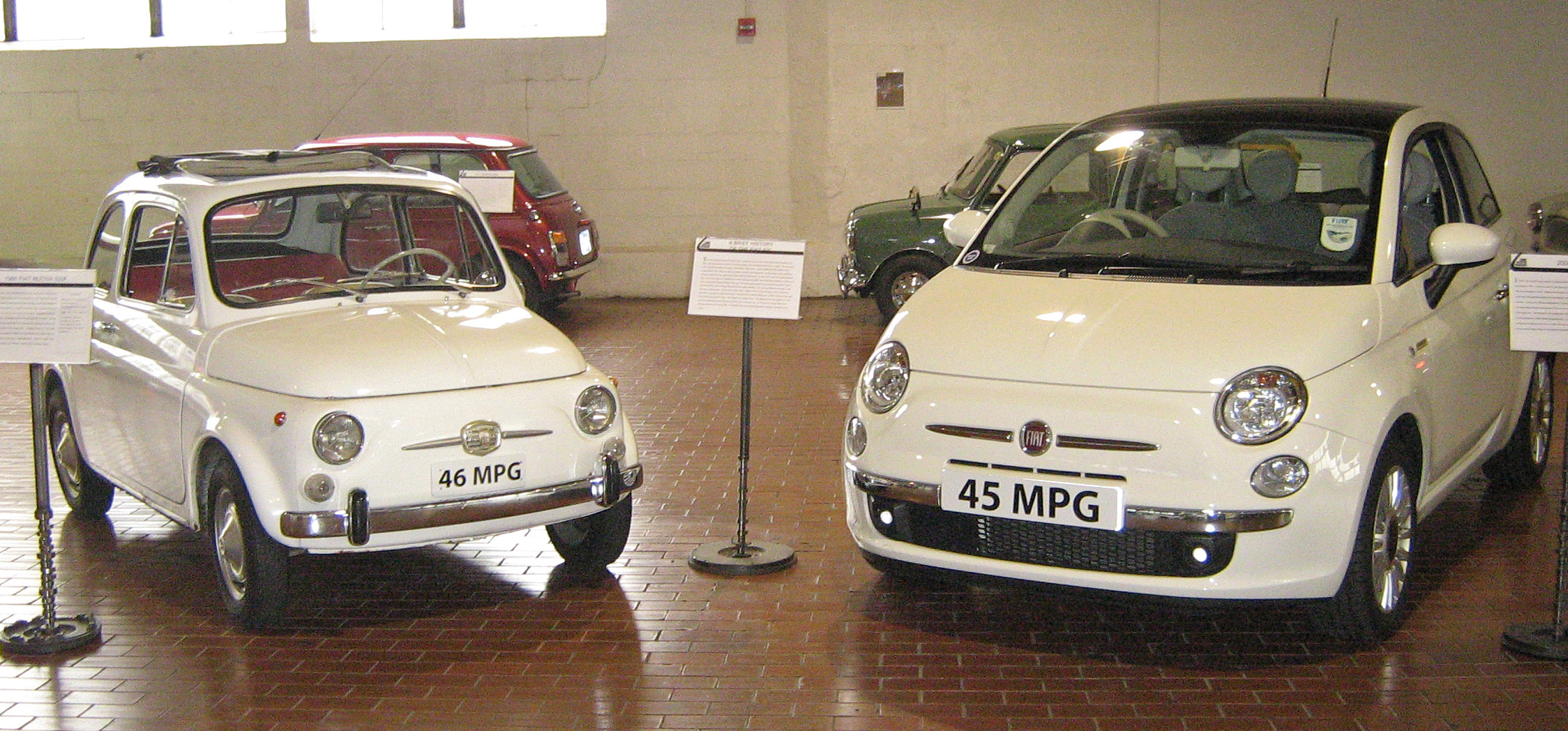 1966 Fiat Nuova 500F and 2008 Fiat 500